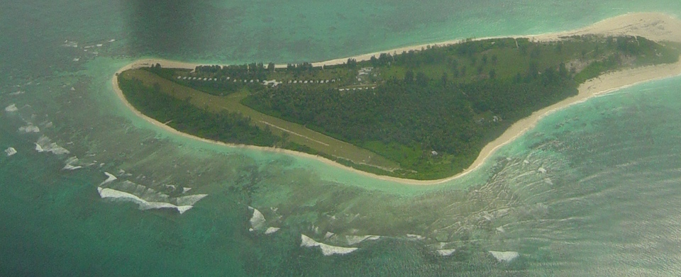 Aerial view of the Bird Island, Seychelles